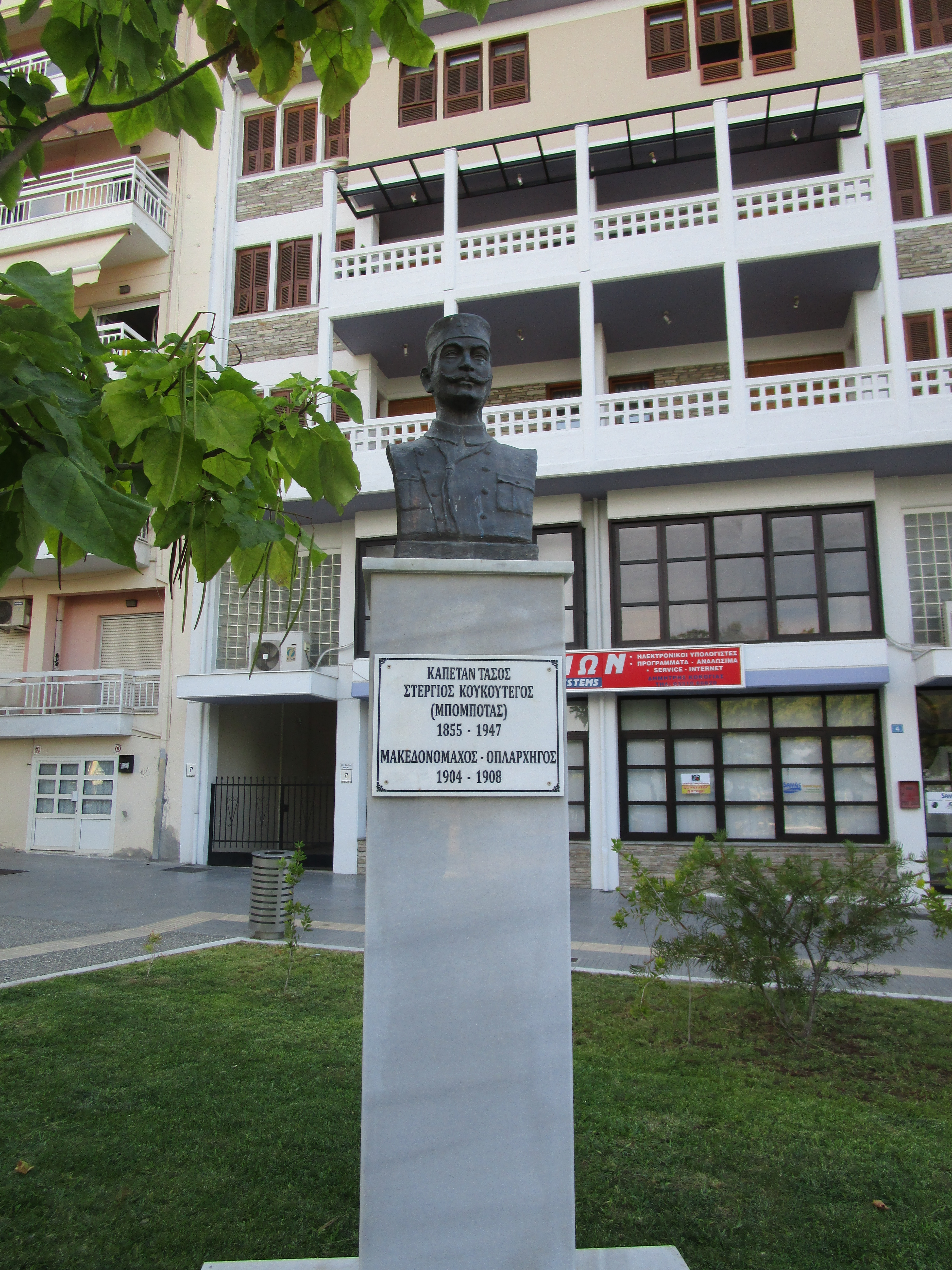 Stergios Koukoutegos, Ber